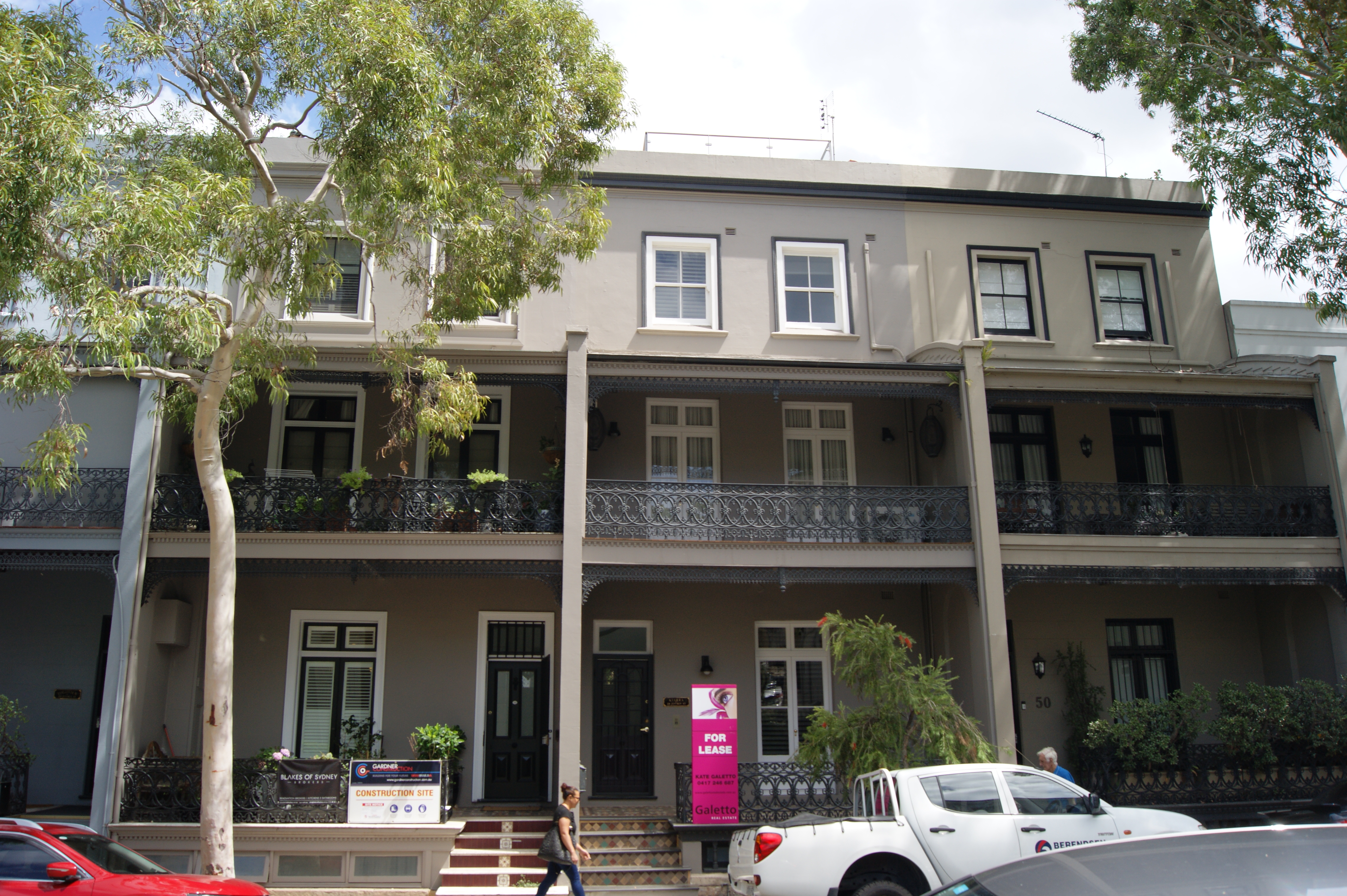 Terrace houses in Kirribilli, New South Wales.